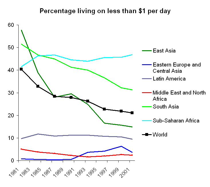 Chart showing the percentage of the population living on less than $1 per day 1981-2001. It excludes data for North America. Based on US$1.08 in 1993 Purchasing Power Parity (PPP), and then adjusted for country-specific inflation. Data source: "How Have the World's Poorest Fared Since the Early 1980s?" by Shaohua Chen and Martin Ravallion. [1] Table 3, p. 28.